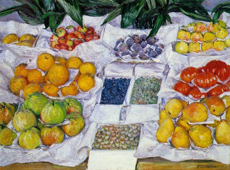 Fruits sur un étalage Museum of Fine Art, Boston.